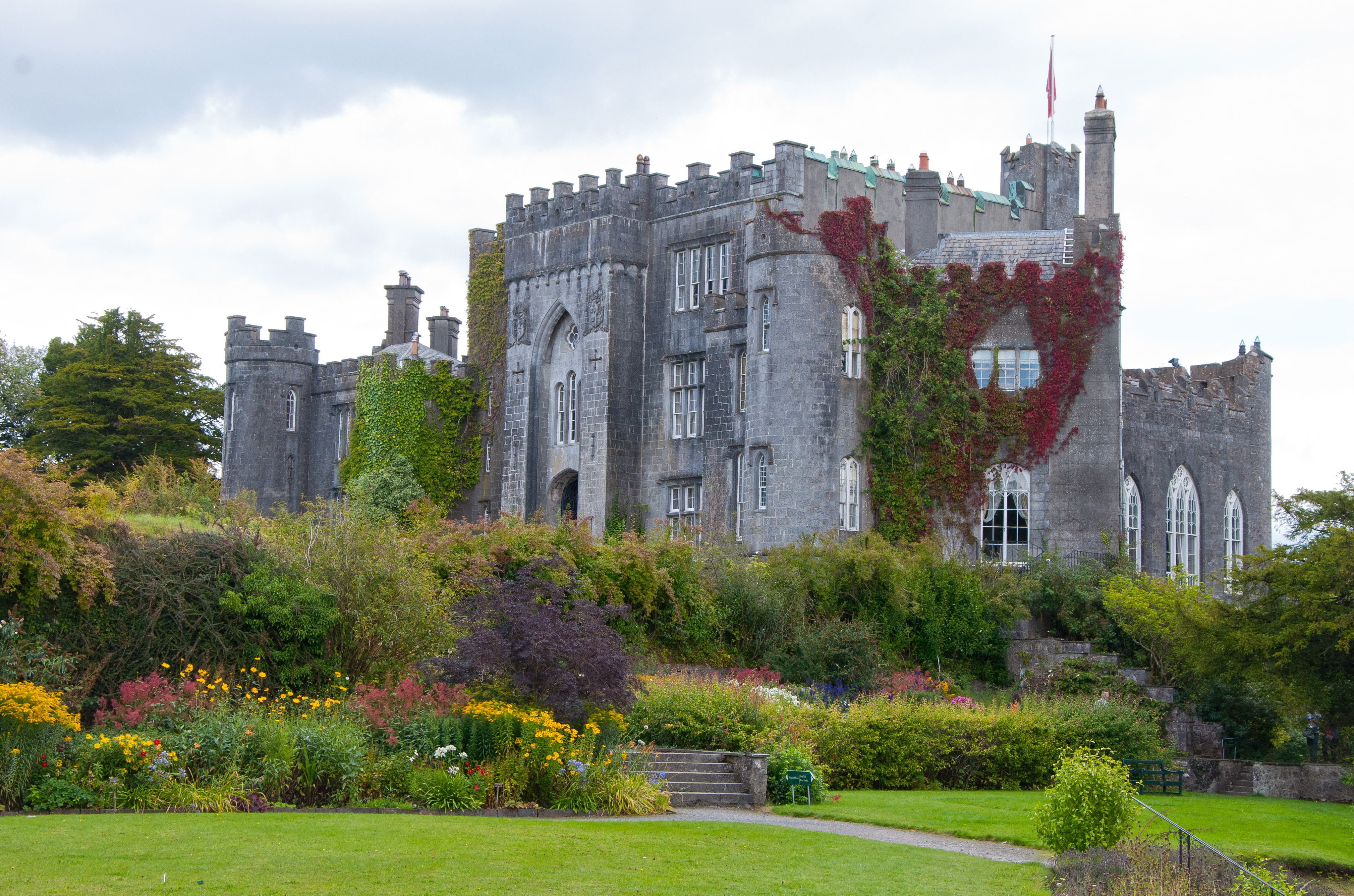 Birr Castle, Birr, Co Offaly